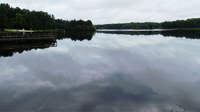 The County Park